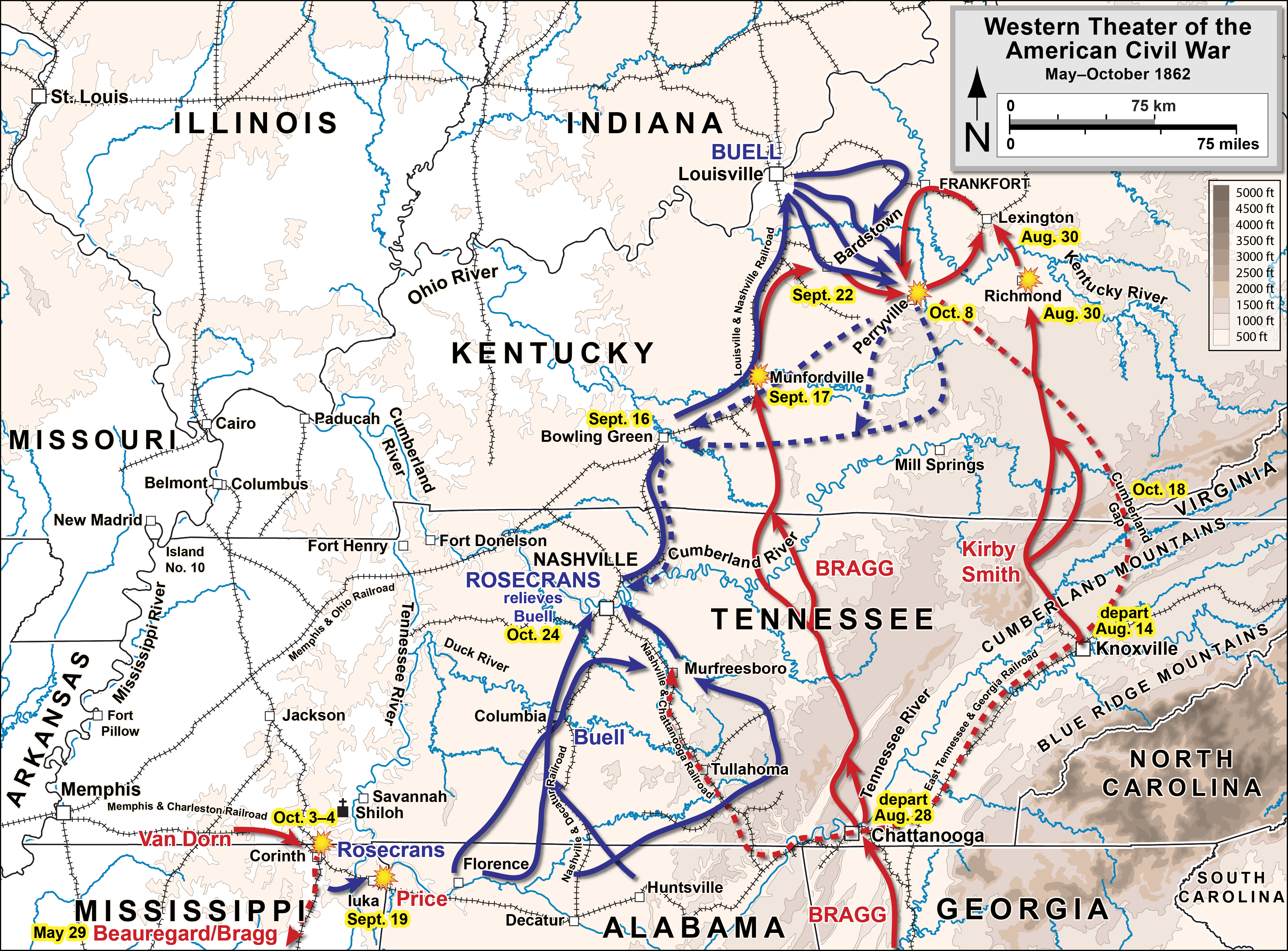 Map 3 of 5 of the Western theater of the American Civil War. Drawn by Hal Jespersen in Adobe Illustrator CS5. Graphic source file is available at